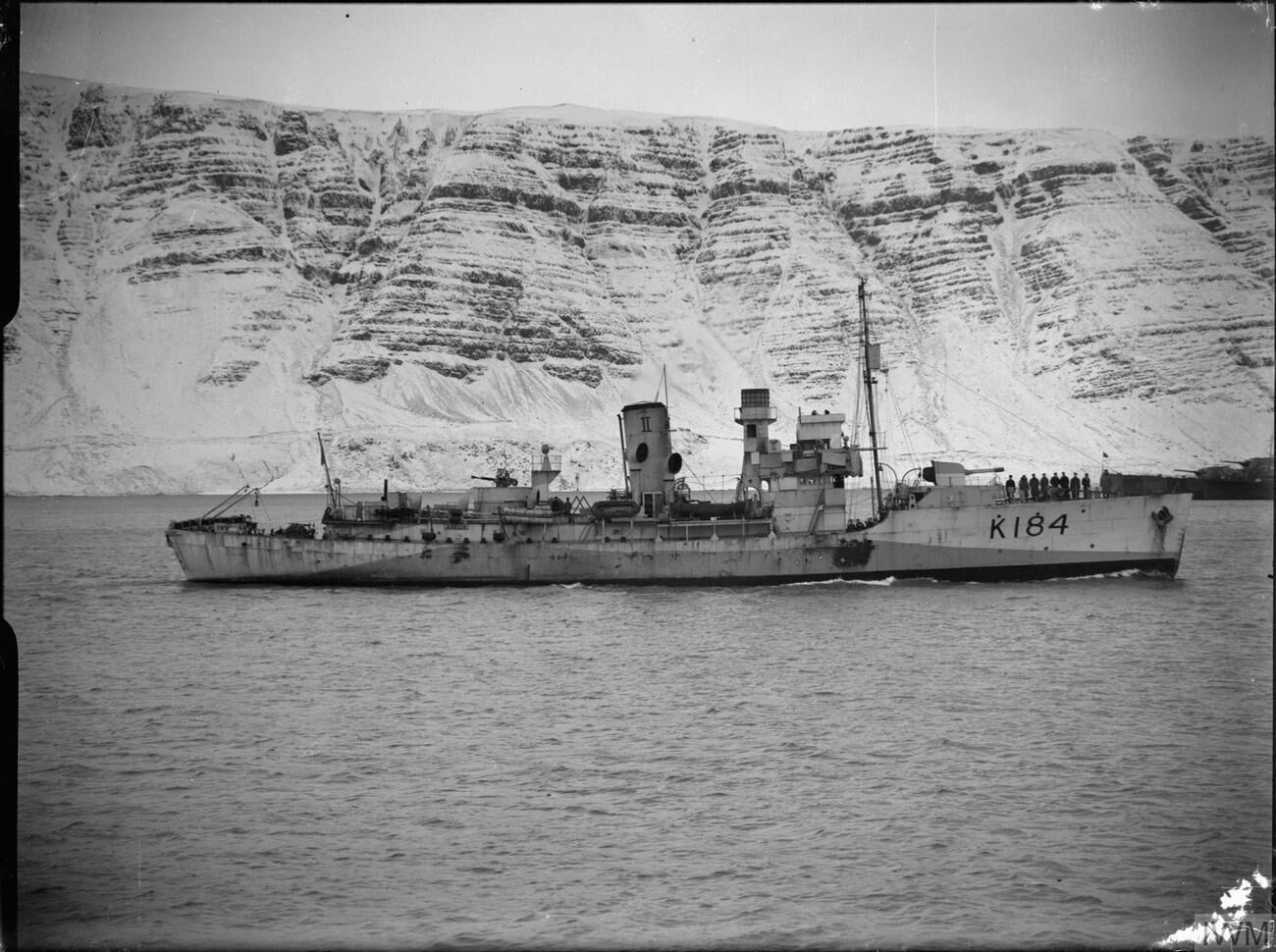 IWM caption : "HMS ABELIA, Flower class corvette at Hvalfjord, Iceland after a patrol in the North Atlantic in search of the German battleship TIRPITZ."